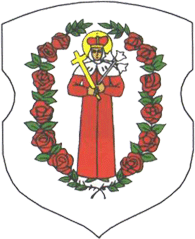 Coats of arms of Ruzhany, Belarus